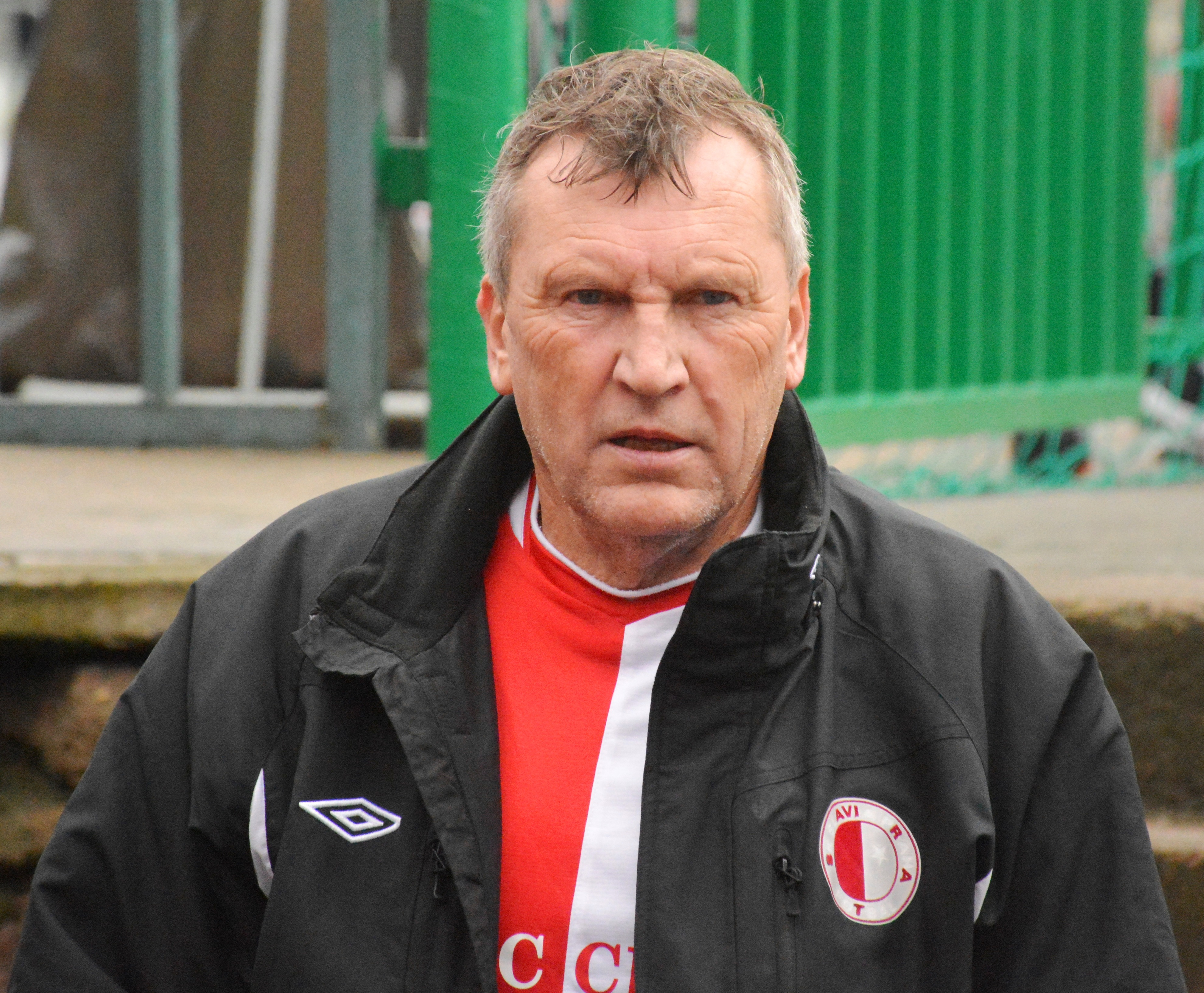 Miroslav Beránek, Czechoslovak footballer